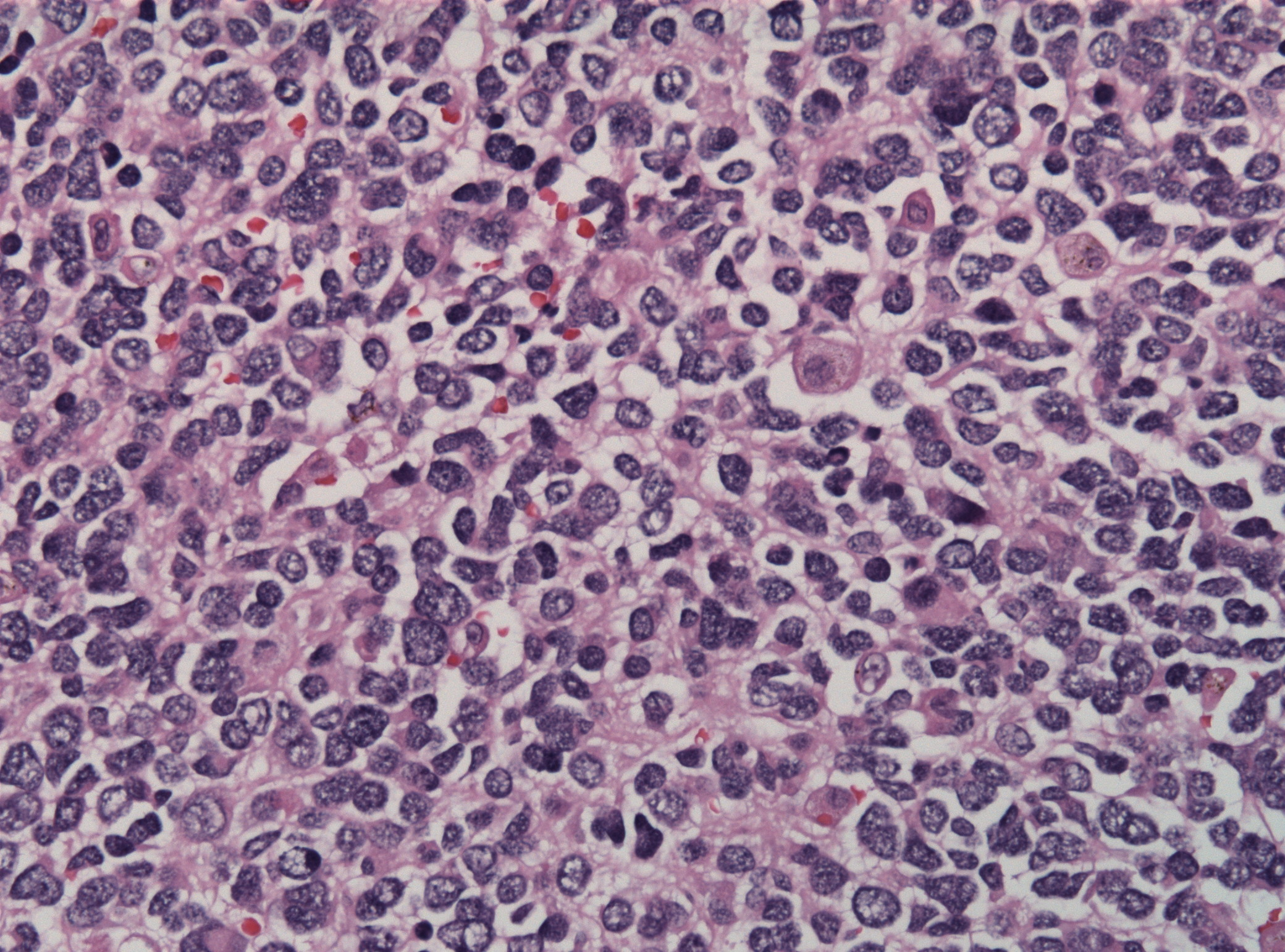 Histopathology specimen of neuroblastoma (HE stain). Neuronal cells are beginning to maturate.